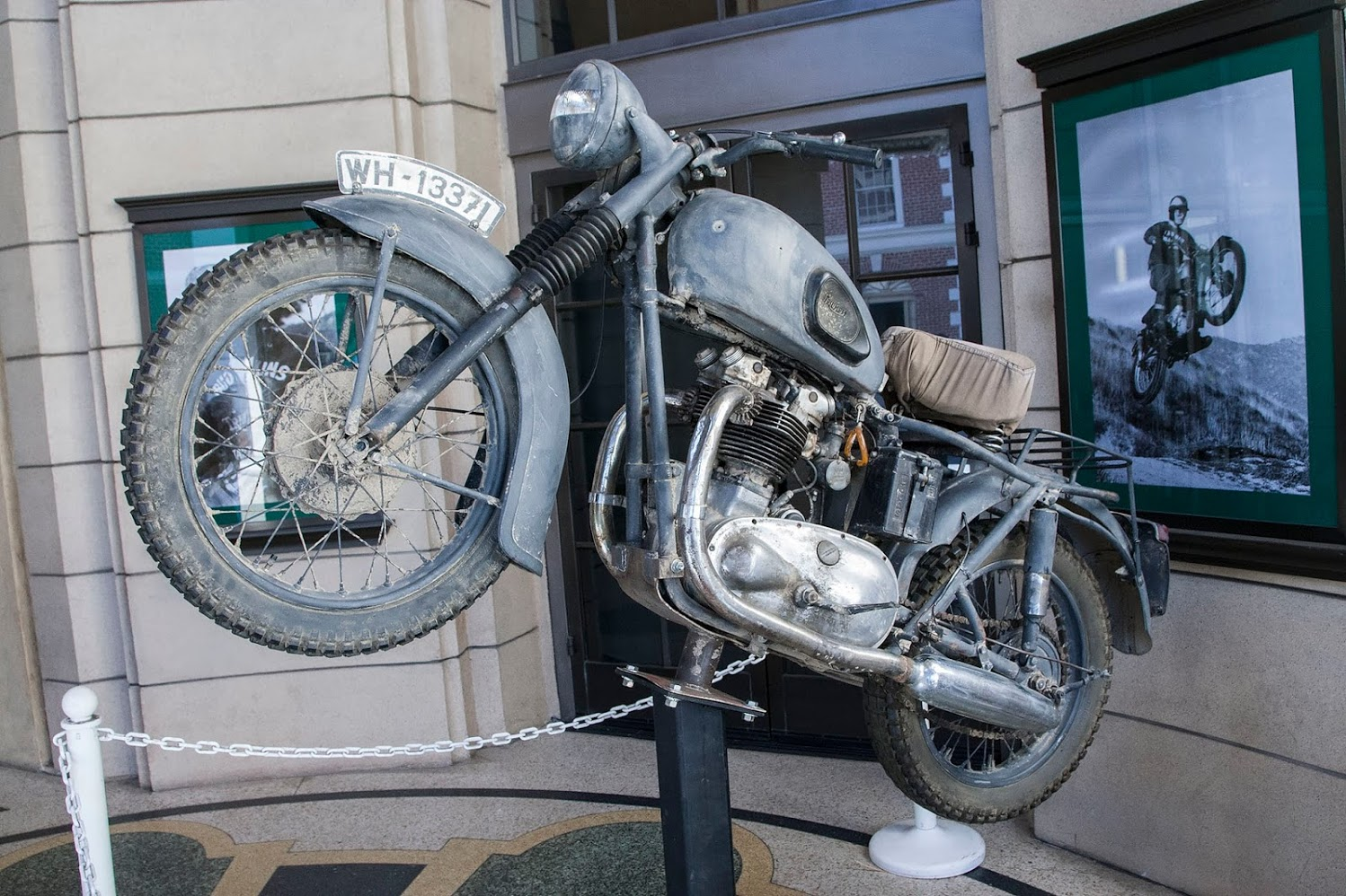 This is the Triumph motorcycle used in the film The Great Escape by Bud Ekins to jump the fence.